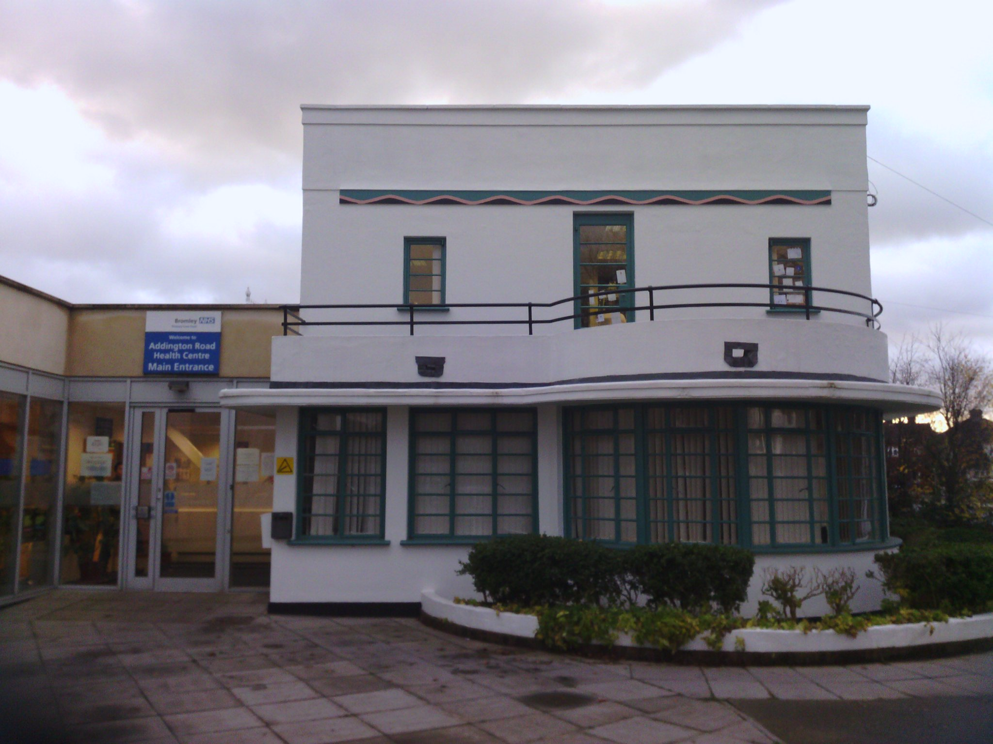 Addington Road Health Centre, 77 Addington Road, West Wickham, England. Architects: Kemp and Tasker. Presumably built as a private house. See this page.